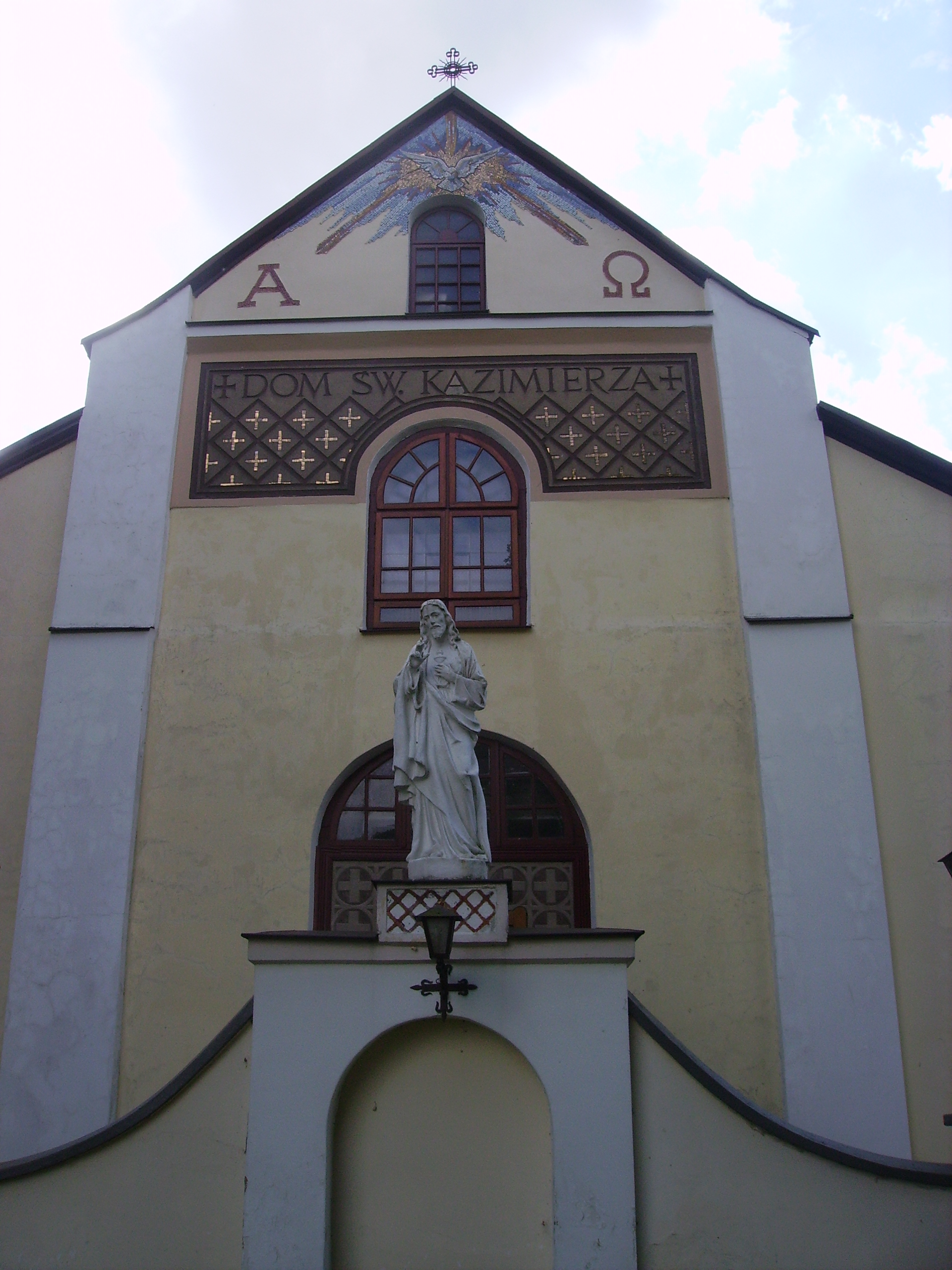 Chapel (statue of Jesus) of Saint Casimir near the church of Saint Mary of Częstochowa in Mońki, ks. Małynicza 1 street